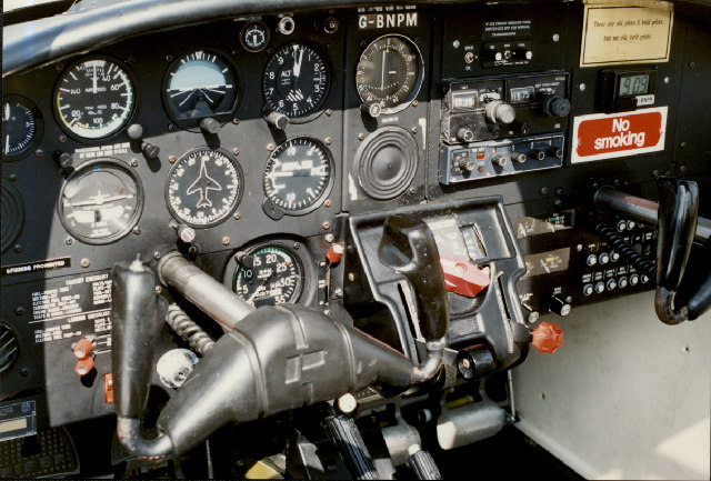 Tomahawk Cockpit - Cambridge. Controls and Instruments of Piper PA-38 G-BNPM, photographed at Cambridge Airport. The gold label on the right reads 'There are old pilots & bold pilots but no old bold pilots'.